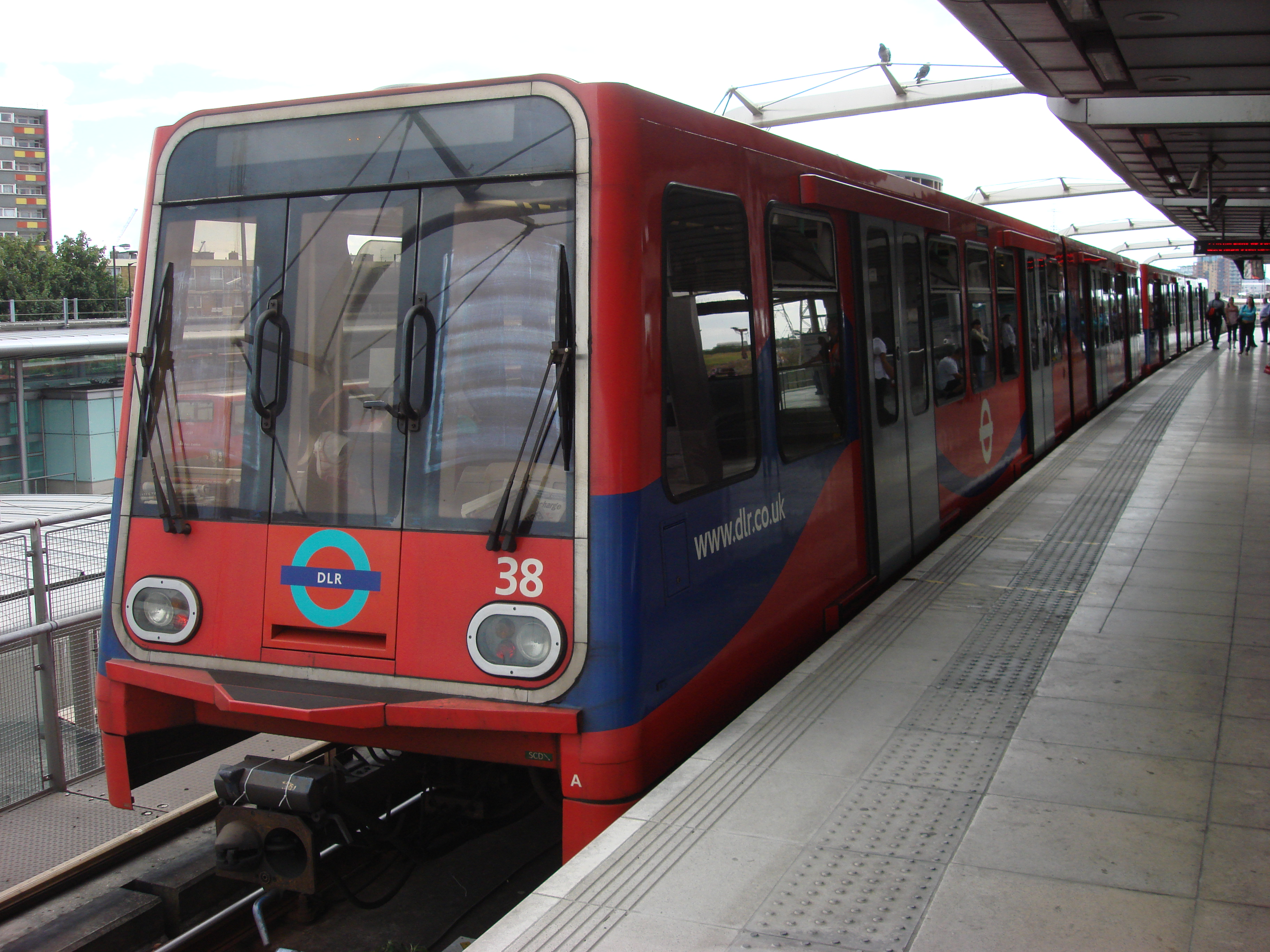 DLR train 38 at Canning Town Docklands Light Railway station, unusually the roundel on the coach side nearest the camera is white on a red background (similar to that used by London Buses) rather then the usual DLR roundel